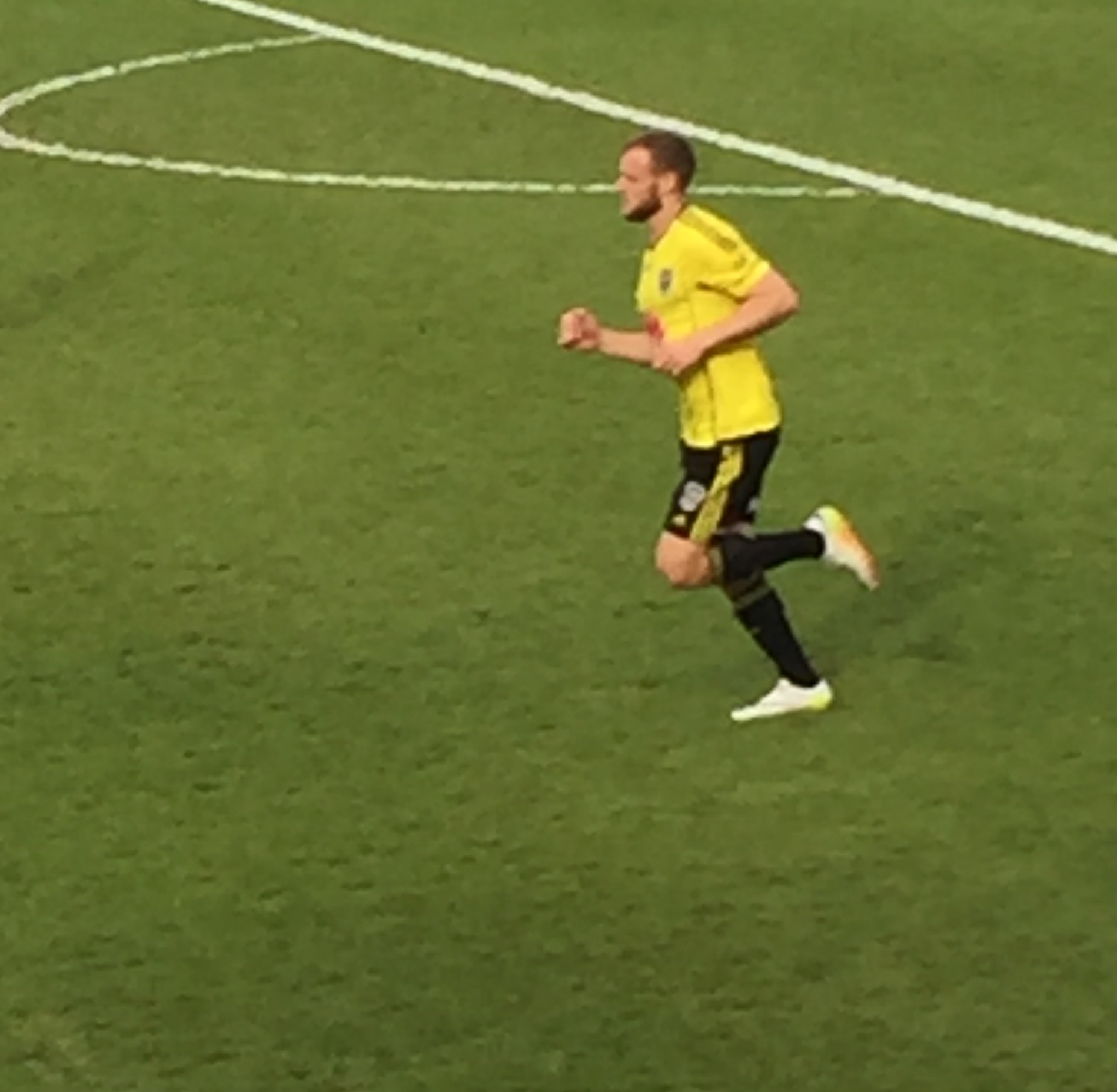 Hamish Watson playing for Wellington Phoenix against Central Coast Mariners at Knox Grammar School on 17 September 2016